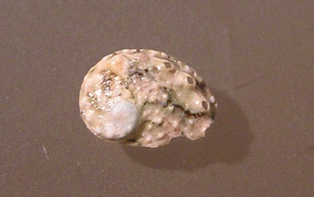 Haliotis unilateralis J. B. Lamarck, 1822, an abalone from the family Haliotidae; Israel